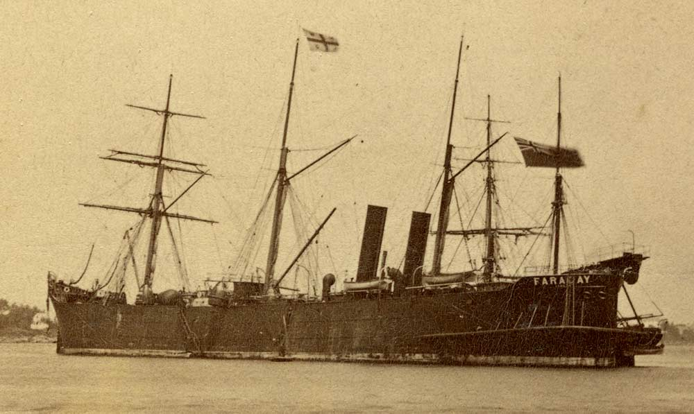 Detail of 1874 stereoview of the cable laying ship Faraday. The flag flying from the middle mast is the Siemens Brothers company flag,a St. George's cross (red on a white ground) bearing the brothers' initials.